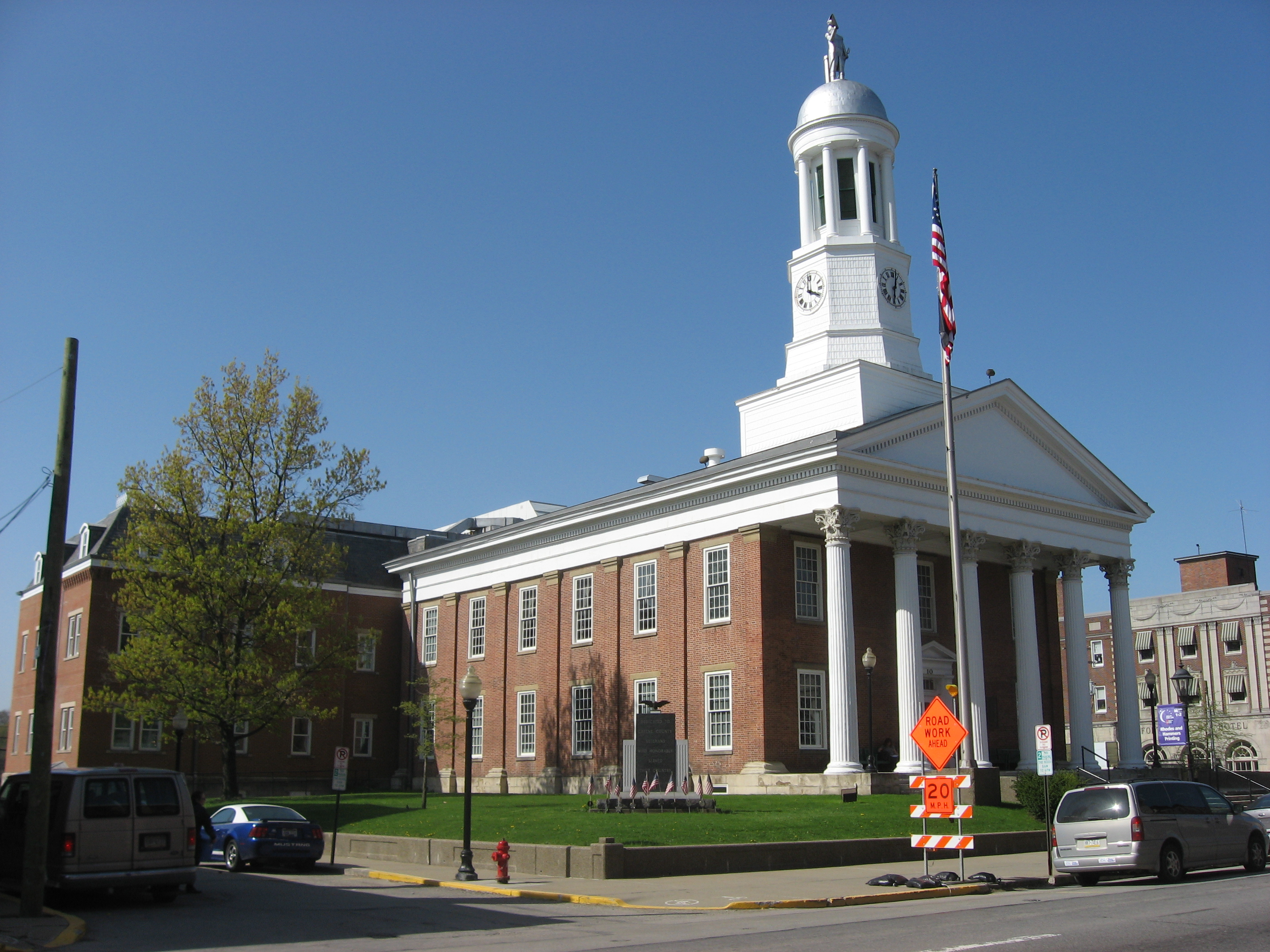 Front of the Greene County Courthouse, located along High Street (U.S. Route 19 and Pennsylvania Route 21) in downtown Waynesburg, Pennsylvania, United States. Built in 1850, it is part of the Waynesburg Historic District, a historic district that is listed on the National Register of Historic Places.